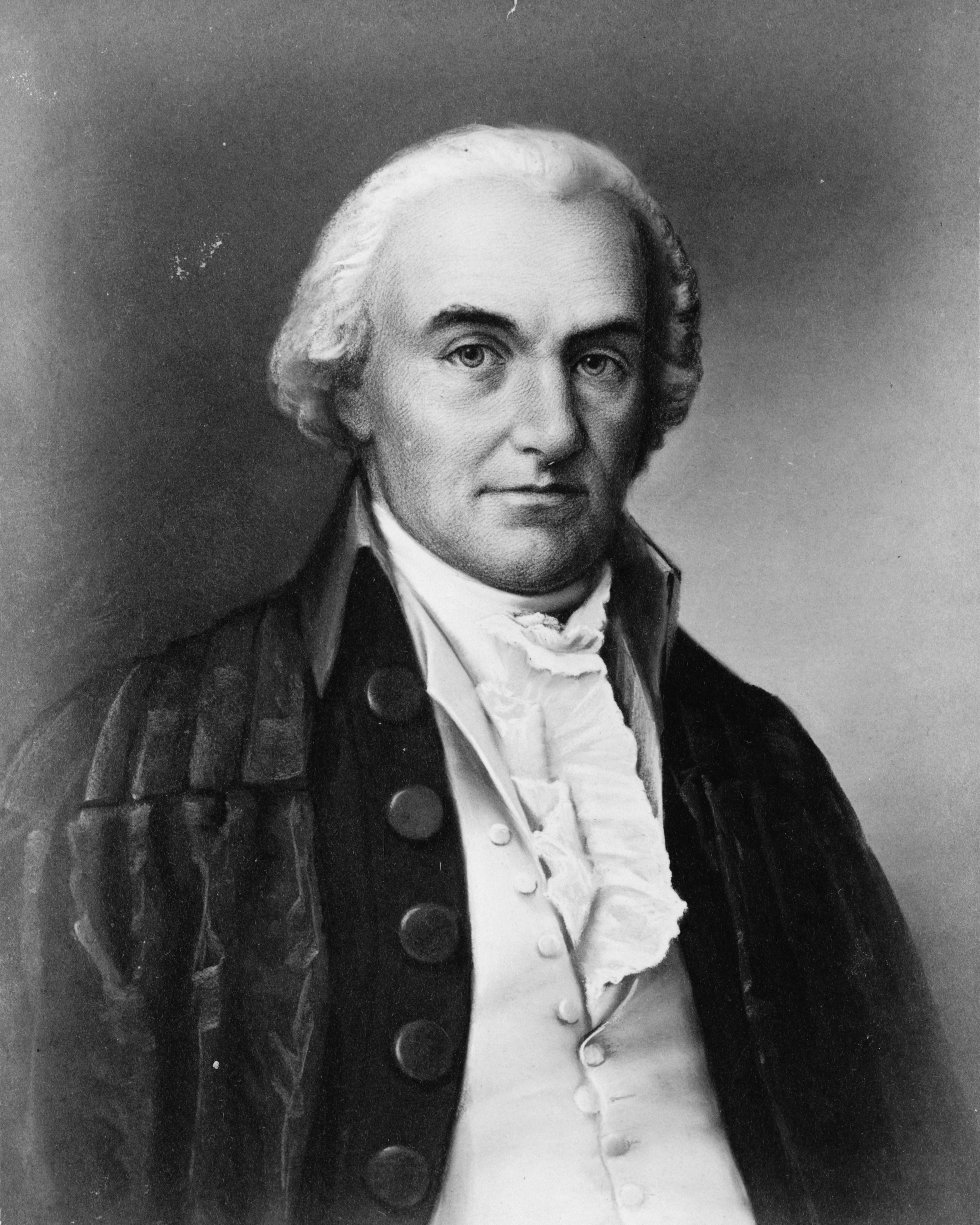 Senator Oliver Ellsworth (F-CT), later became chief justice of the Supreme Court